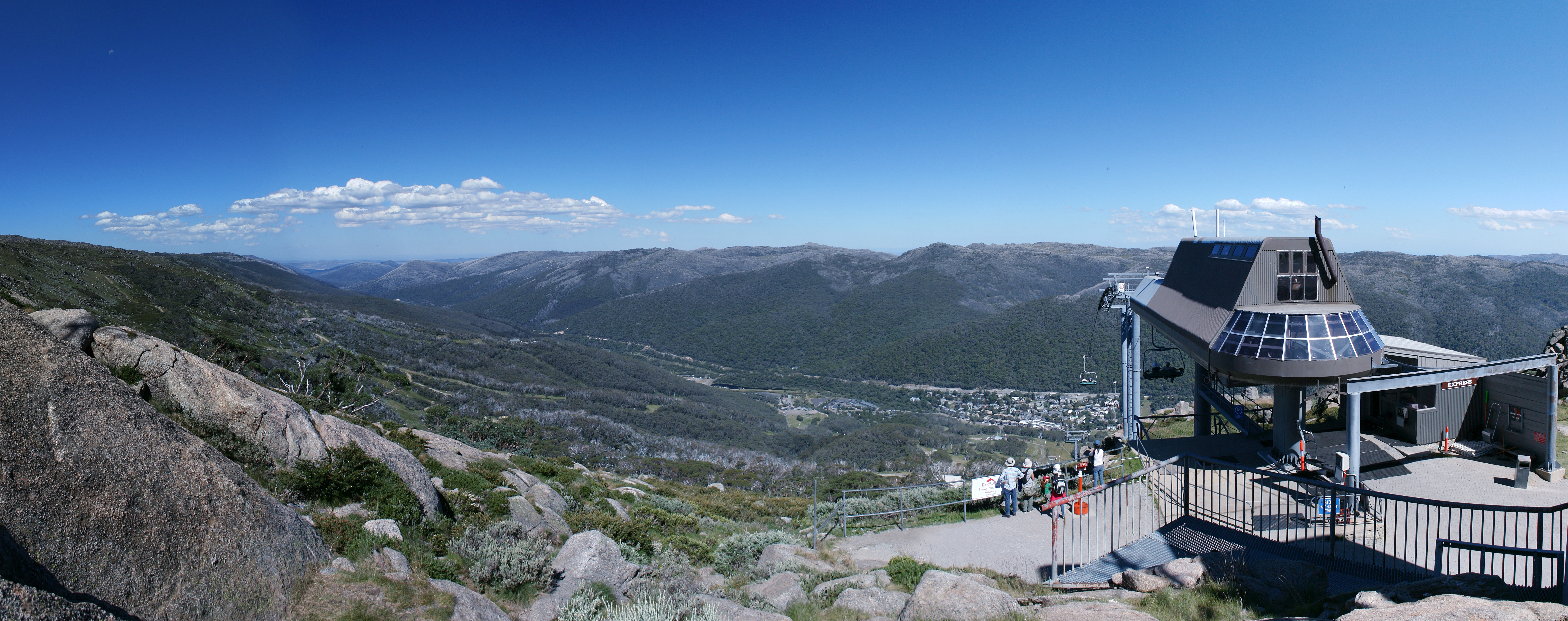 Summer panorama from just above the Kosciuszko Express (chairlift) Terminal at Thredbo, looking down at the Thredbo River valley and Thredbo Village. In winter this valley is covered in snow and is one of the few locations in Australia used extensively for winter sports.